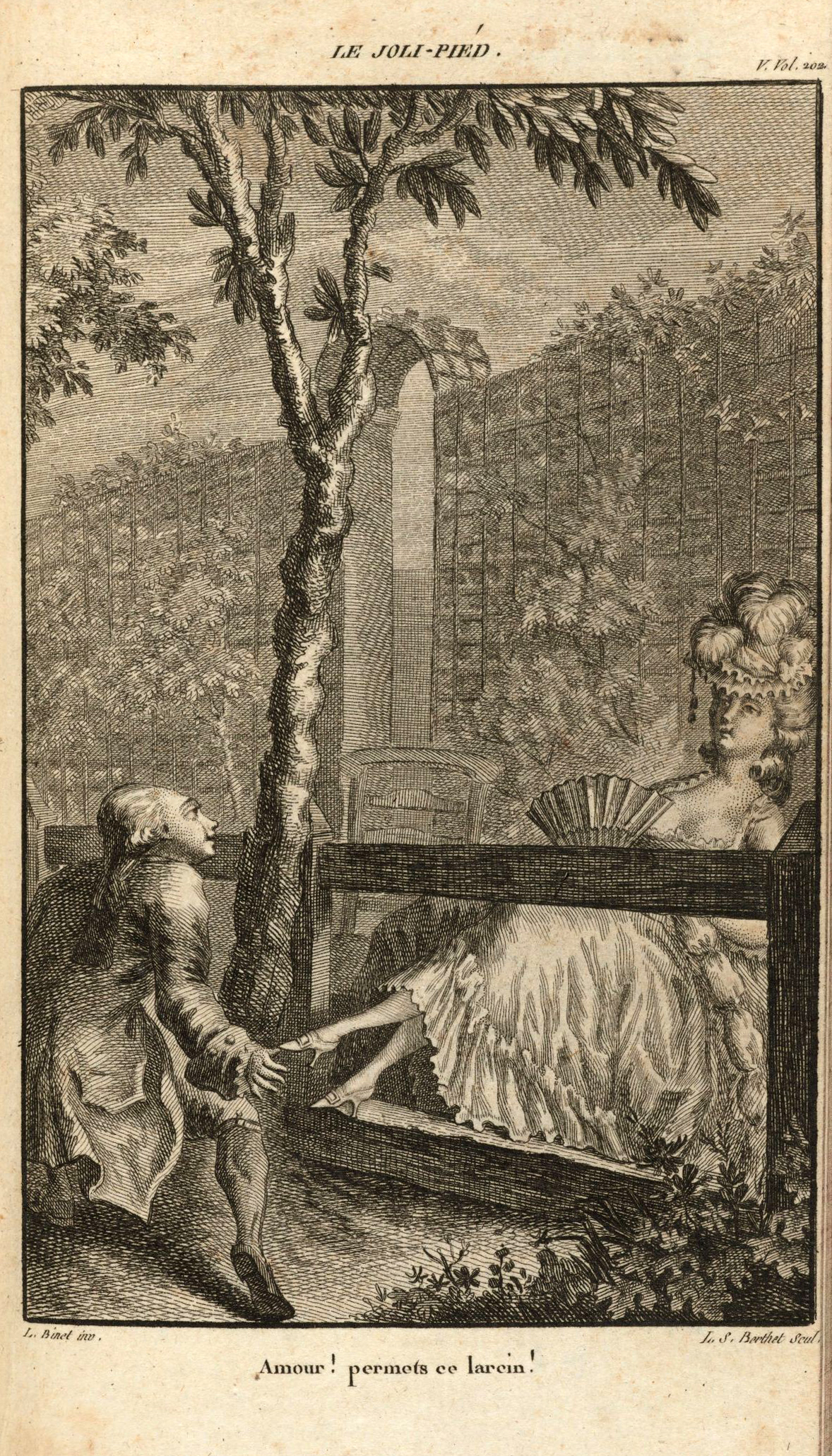 Illustration from Les contemporaines; ou, Avantures des plus jolies femmes de l'âge présent, 1780-1785, by Restif de La Bretonne (1734-1806). *FC7 R3135 788p, Houghton Library, Harvard University